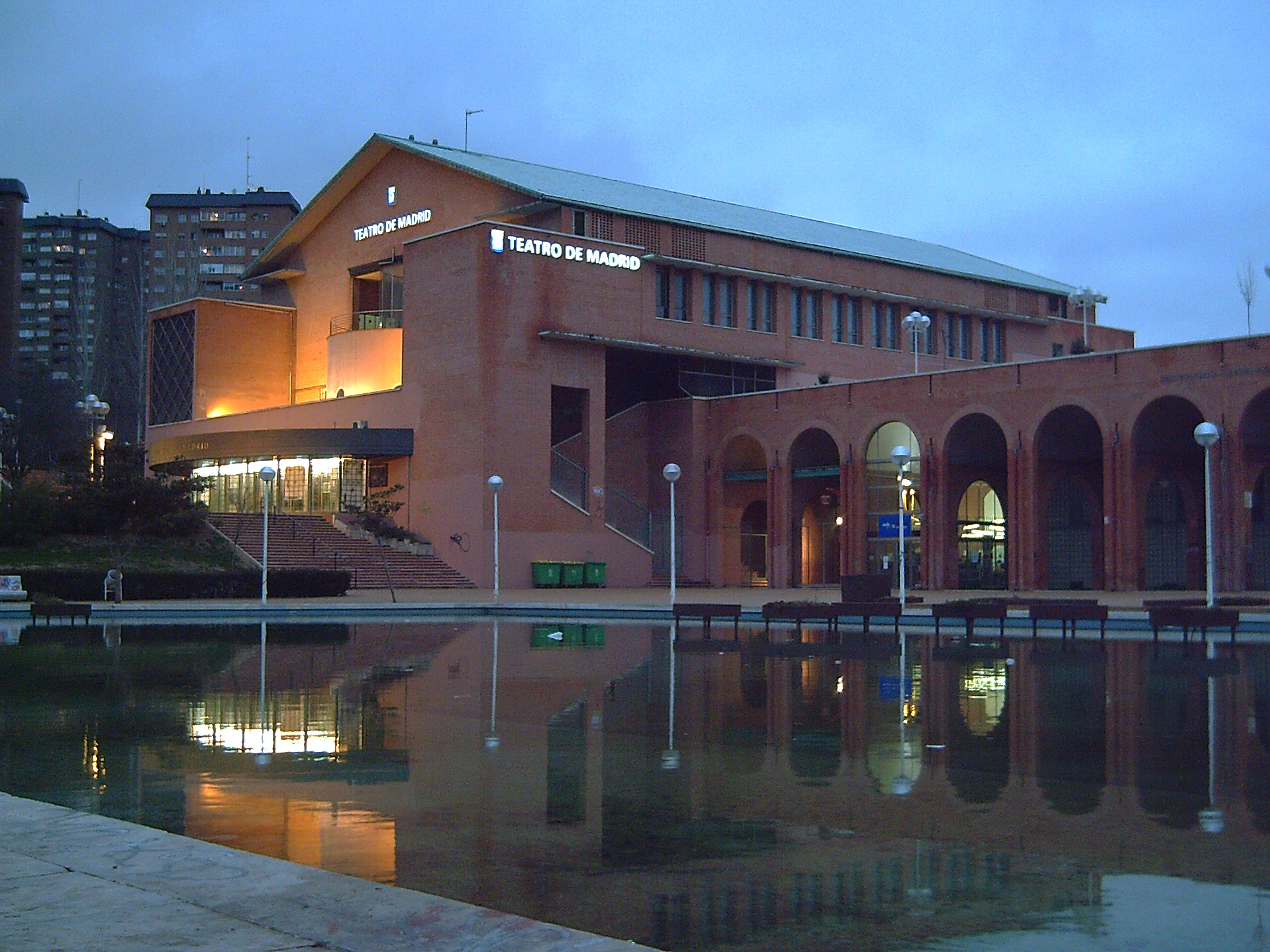 The so-called Teatro de Madrid, a theater in Madrid (Spain). Address: Avenida de la Ilustración (avenue). Inaugurated on January 12, 1992. Architects: Javier San José, Jorge Pacerías and Guillermo Costa.